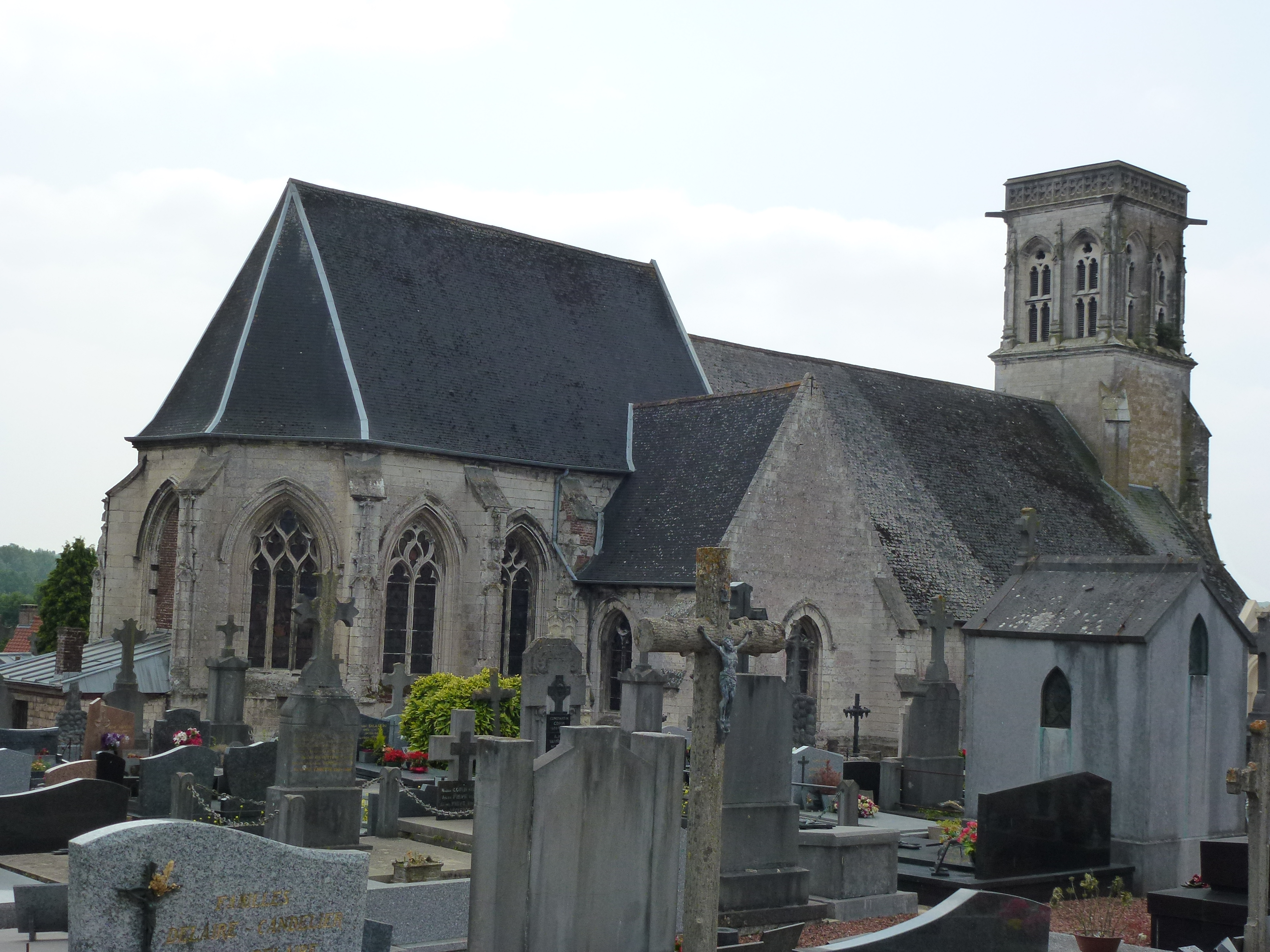 Pernes (Pas-de-Calais, Fr) église Saint-Pierre